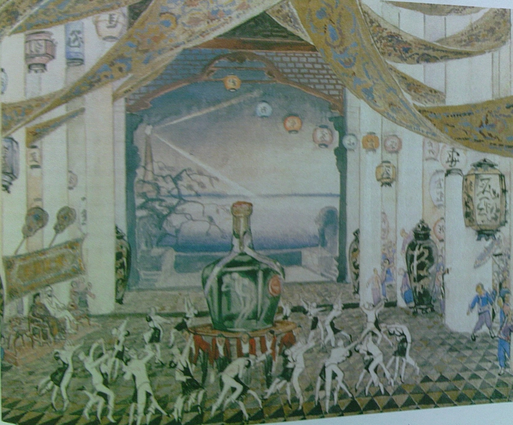 The picture shows a scene from the ballet "The Red Poppy" by R.Gliere